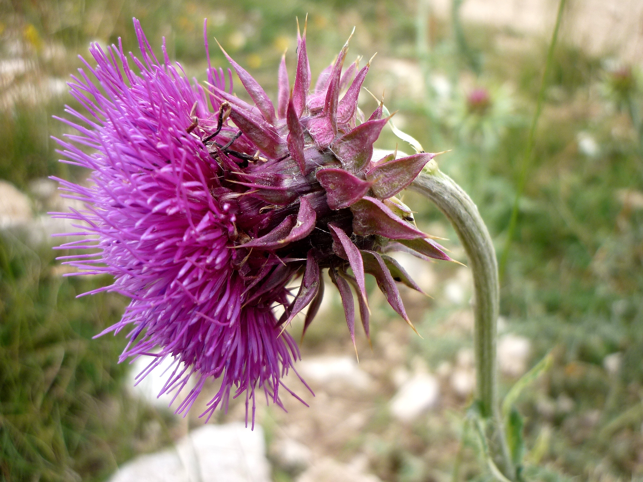 Carduus nutans. In la Bòfia, la Coma i la Pedra (Solsonès - Catalunya). To 1.830 m. altitude